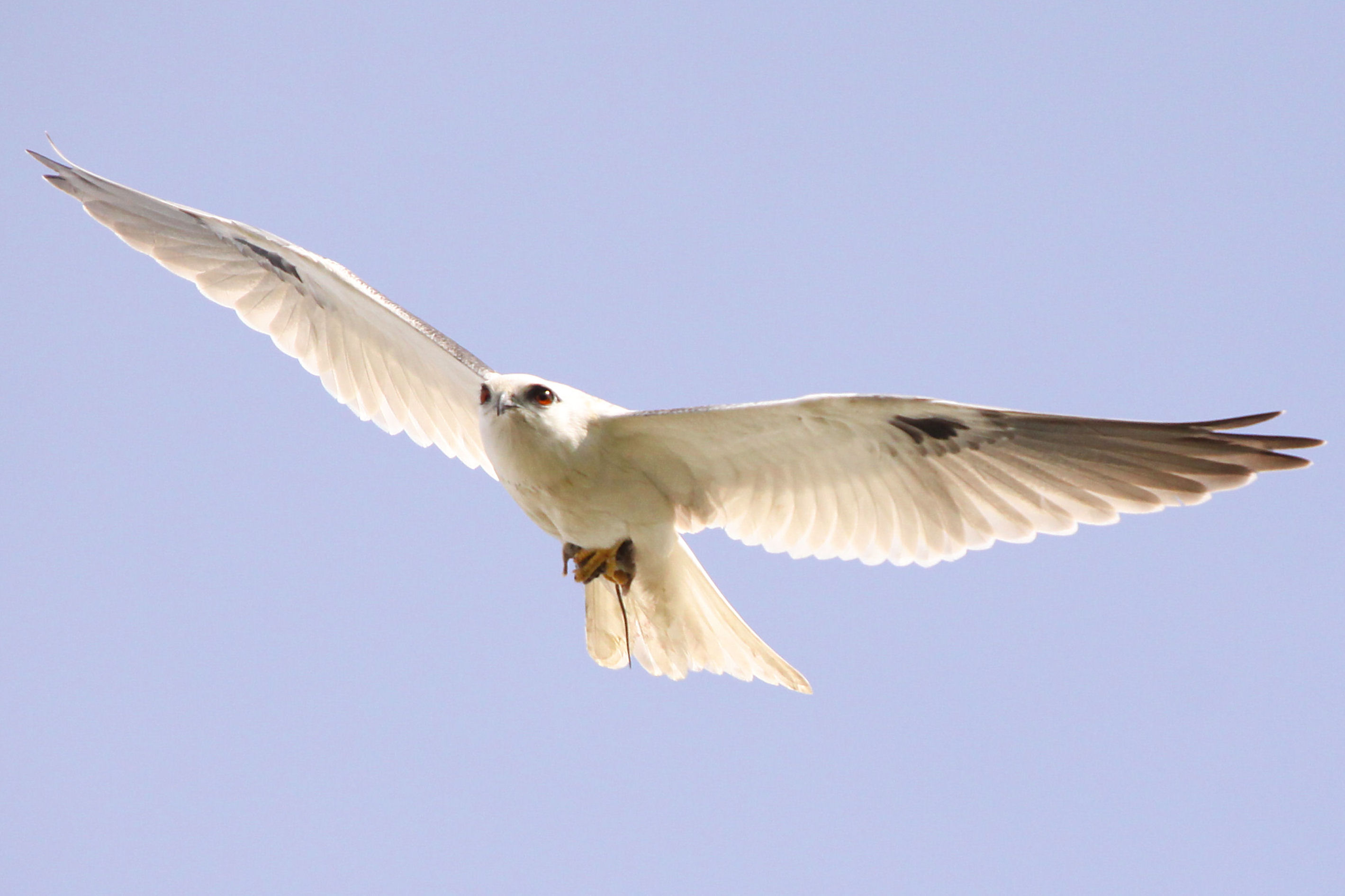 Black-shouldered Kite in flight with a mouse. Kooragang Island, Newcastle, NSW, Australia.